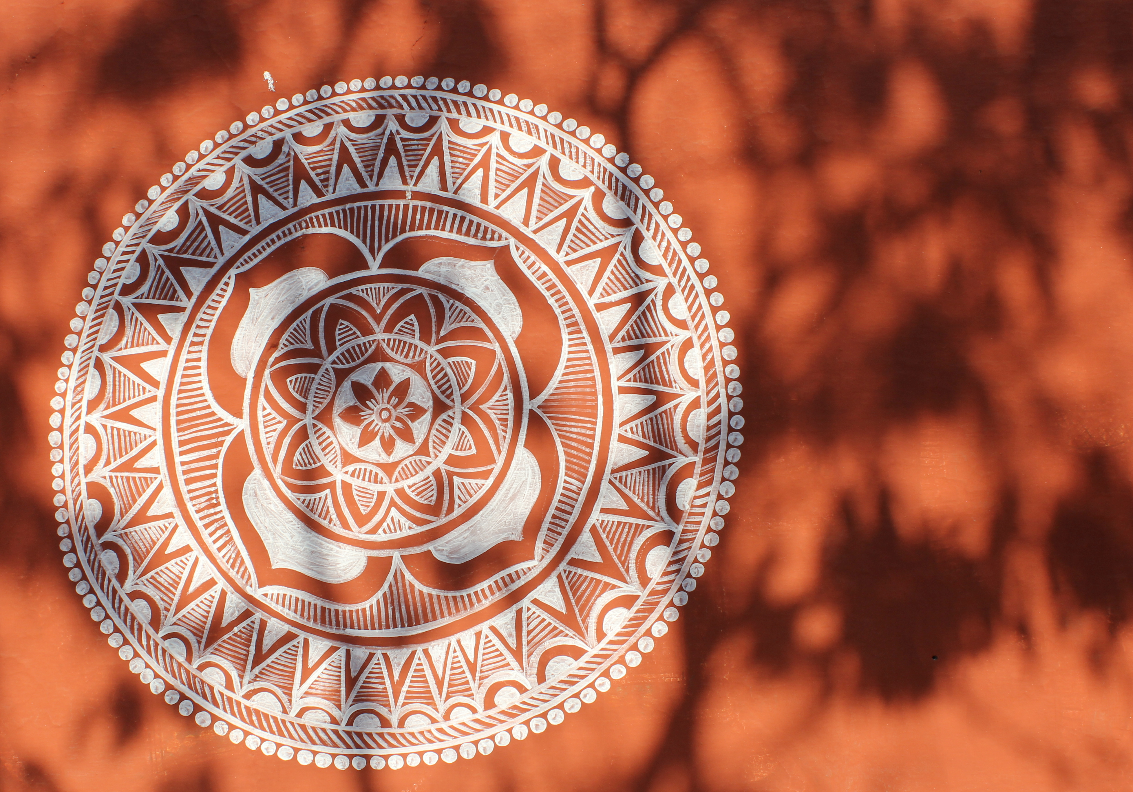 Mandala art work is a traditional rajasthani art work used to protect homes in rajasthan . these are usually found on the walls of rajasthani mud homes. this painting is from shilpgram , udaipur